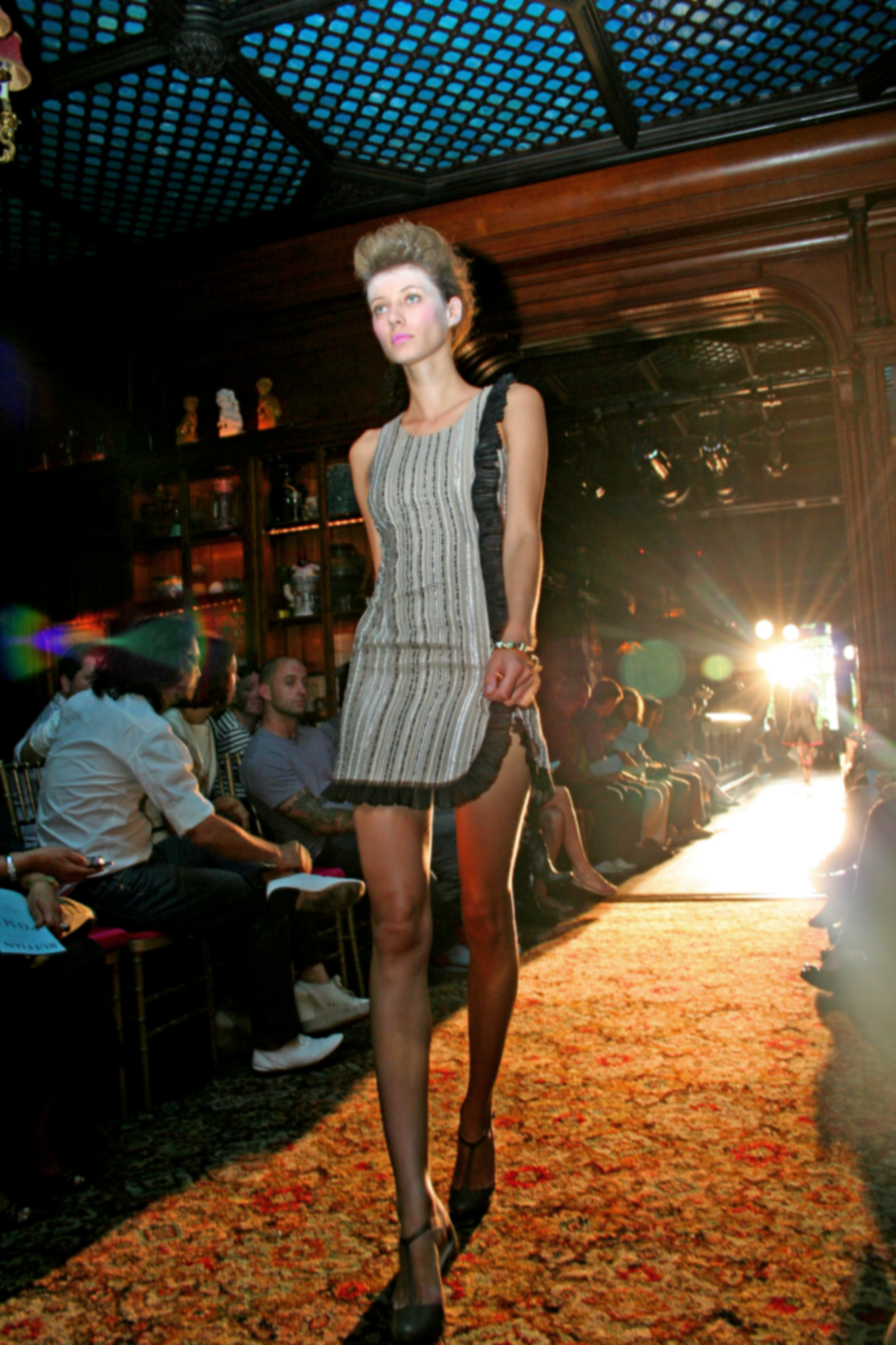 Andreea Stancu modeling in Ruffian spring 2008 show, New York Fashion Week.